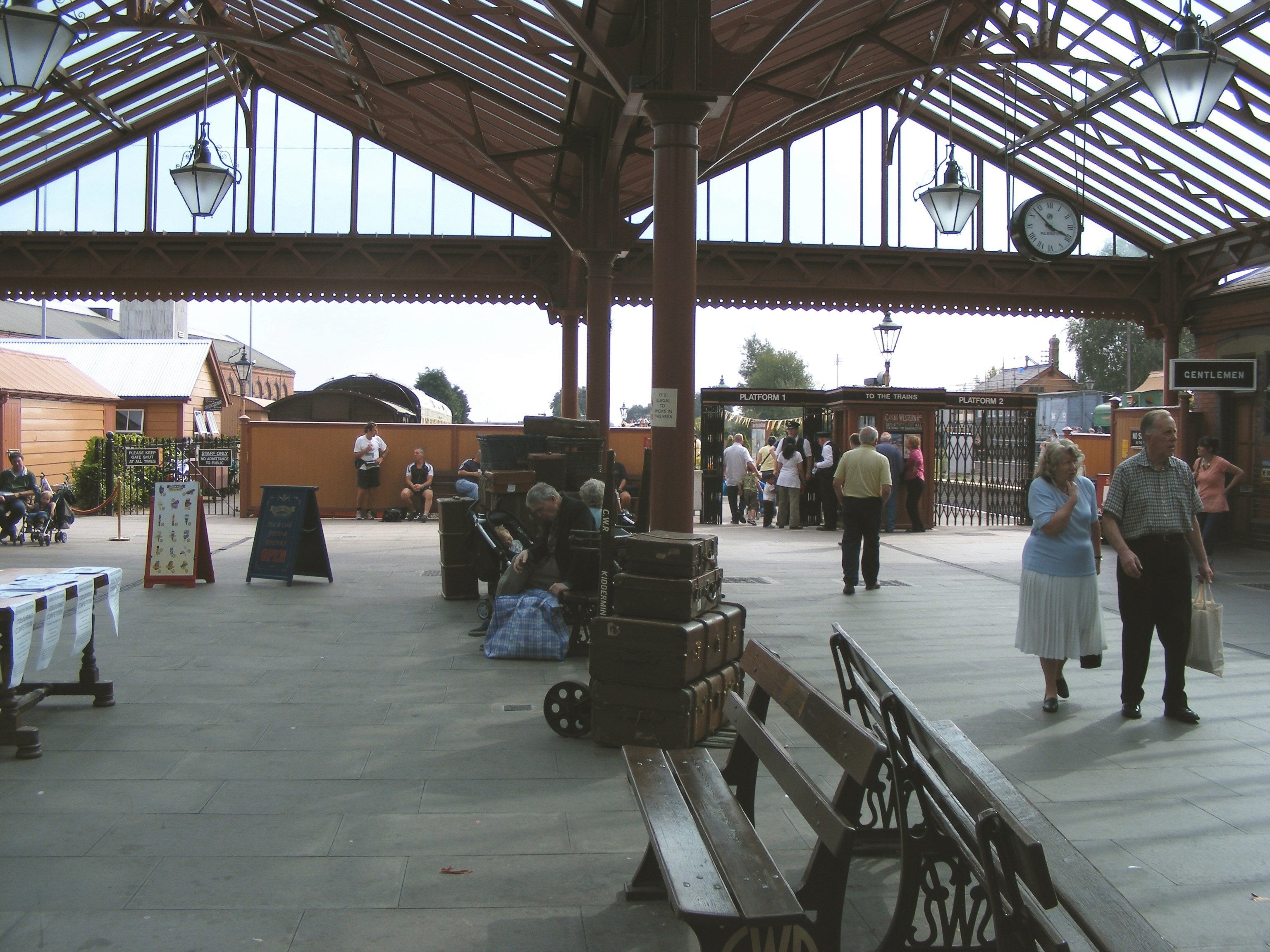 Interior of Kidderminster Town railway station on the Severn Valley Railway.